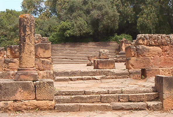 Ancient Roman archaeological site in Tipaza, Algeria.